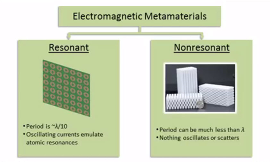 this is the different type of magnetic materials